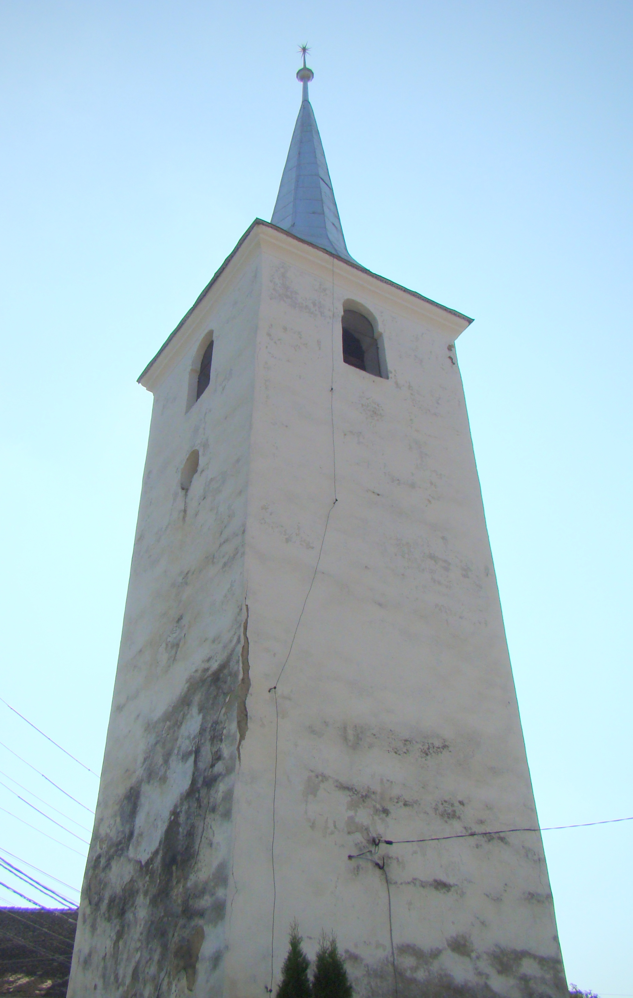 Reformed church in Lutița, Harghita County, Romania